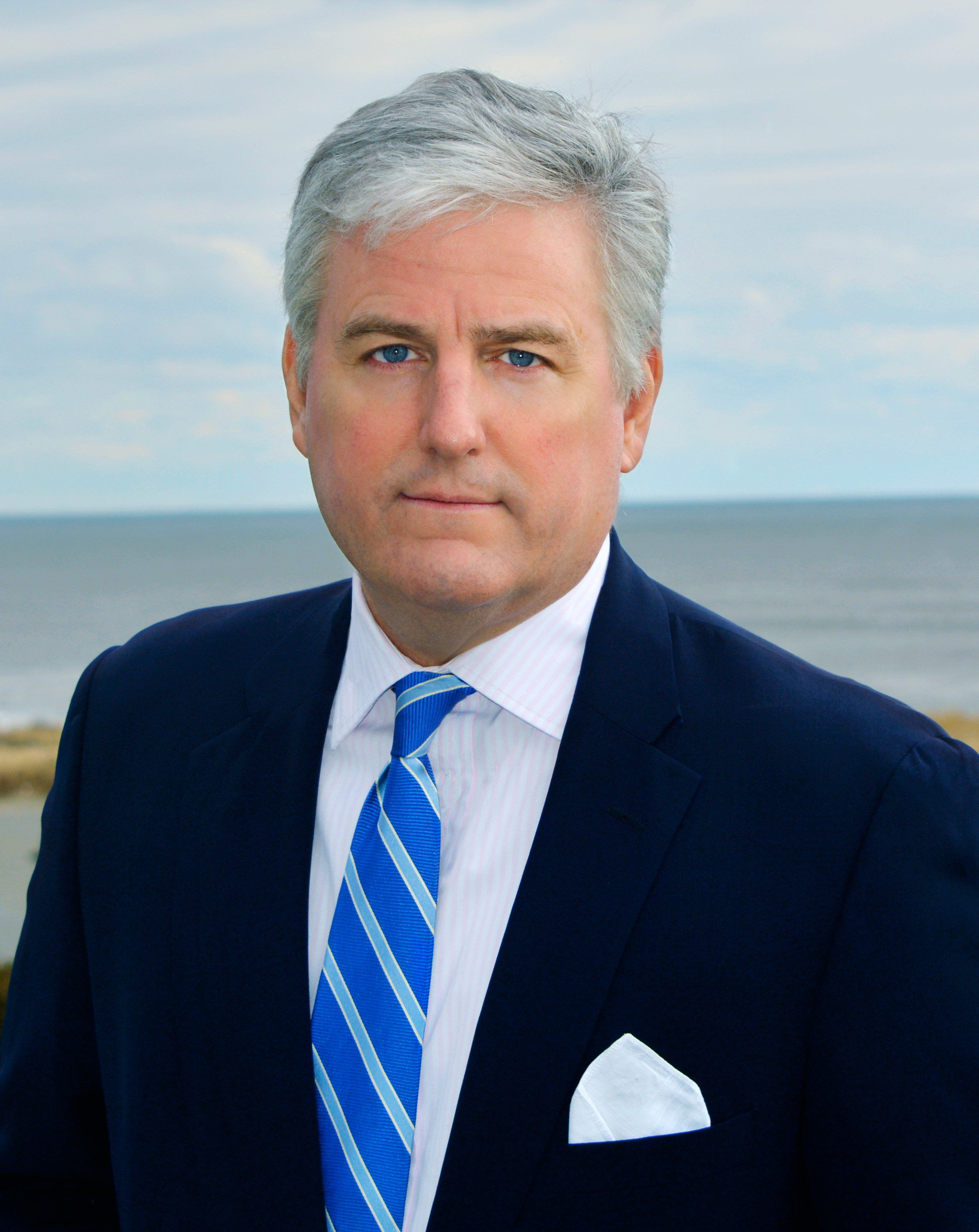 Self Portrait photo